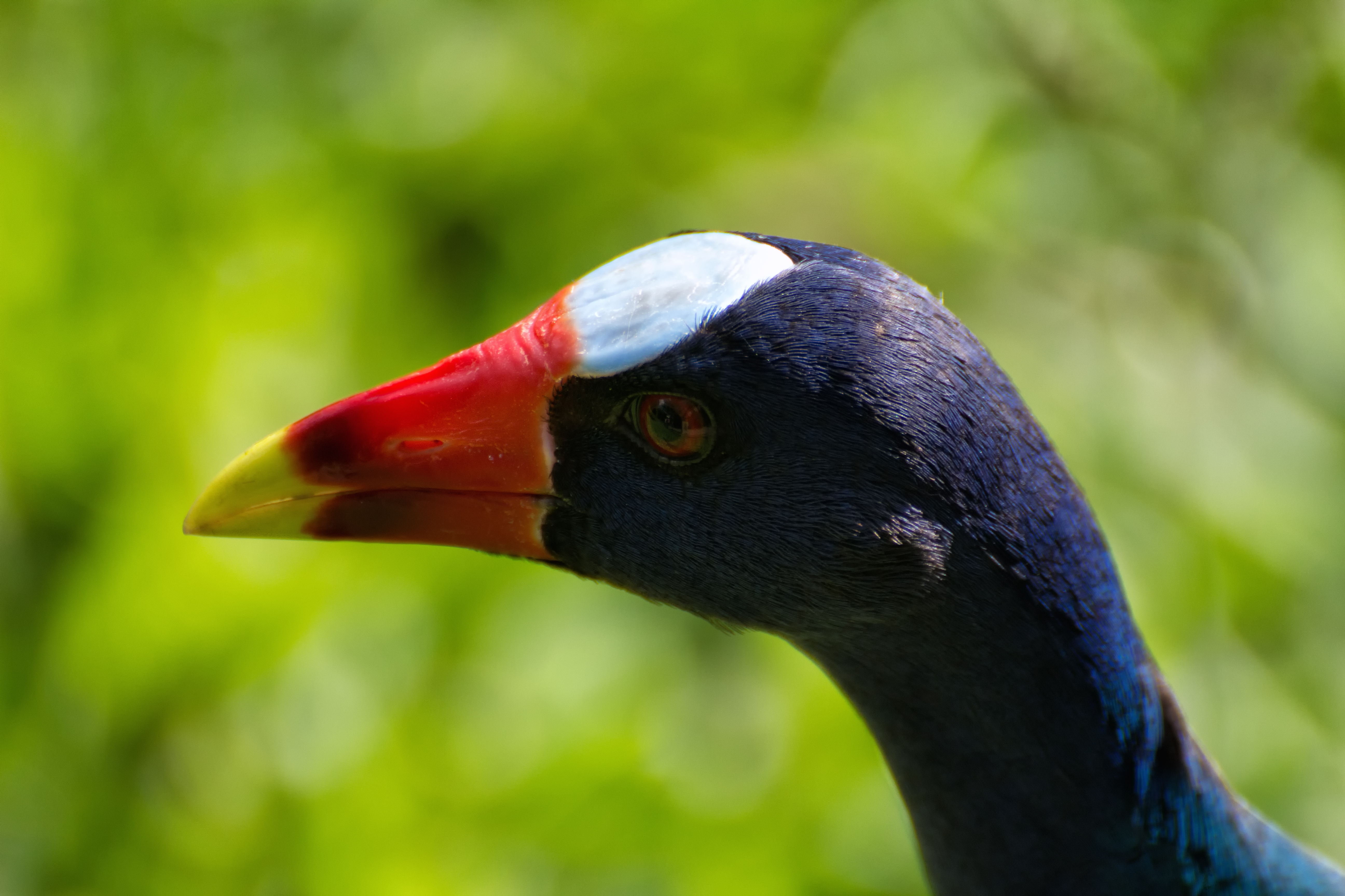 A American Purple Gallinule in Parque del Este, Caracas, Venezuela.